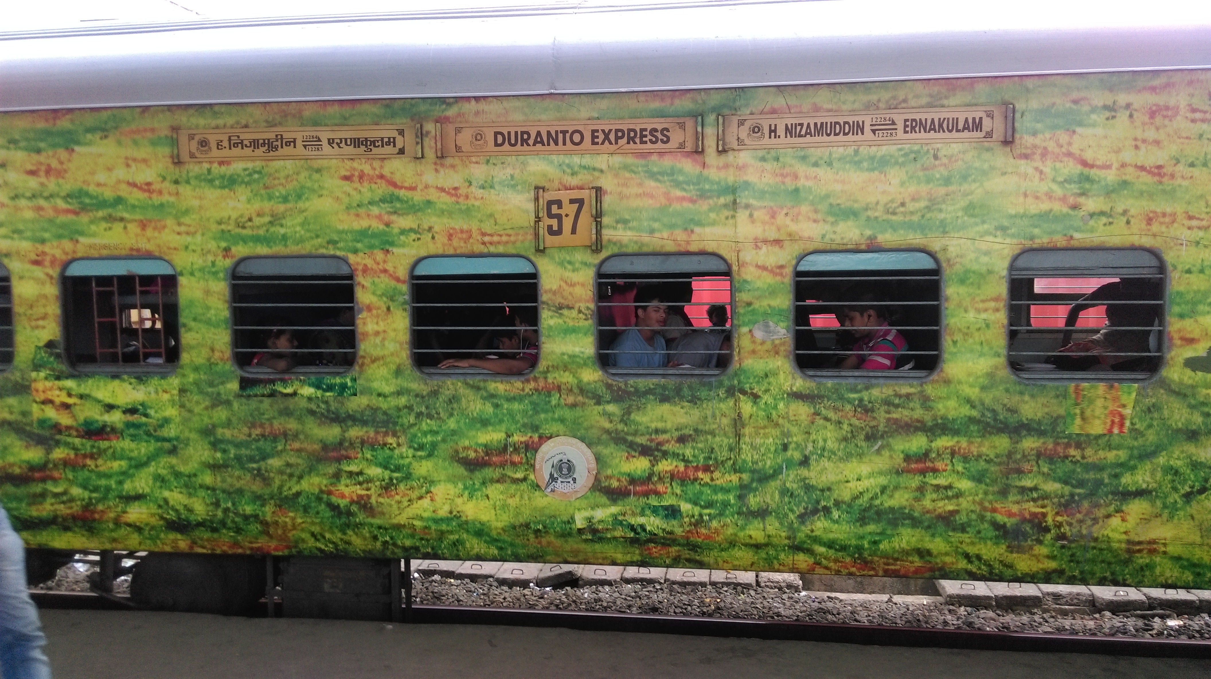 12284 - Duronto Express - Sleeper Class - S7